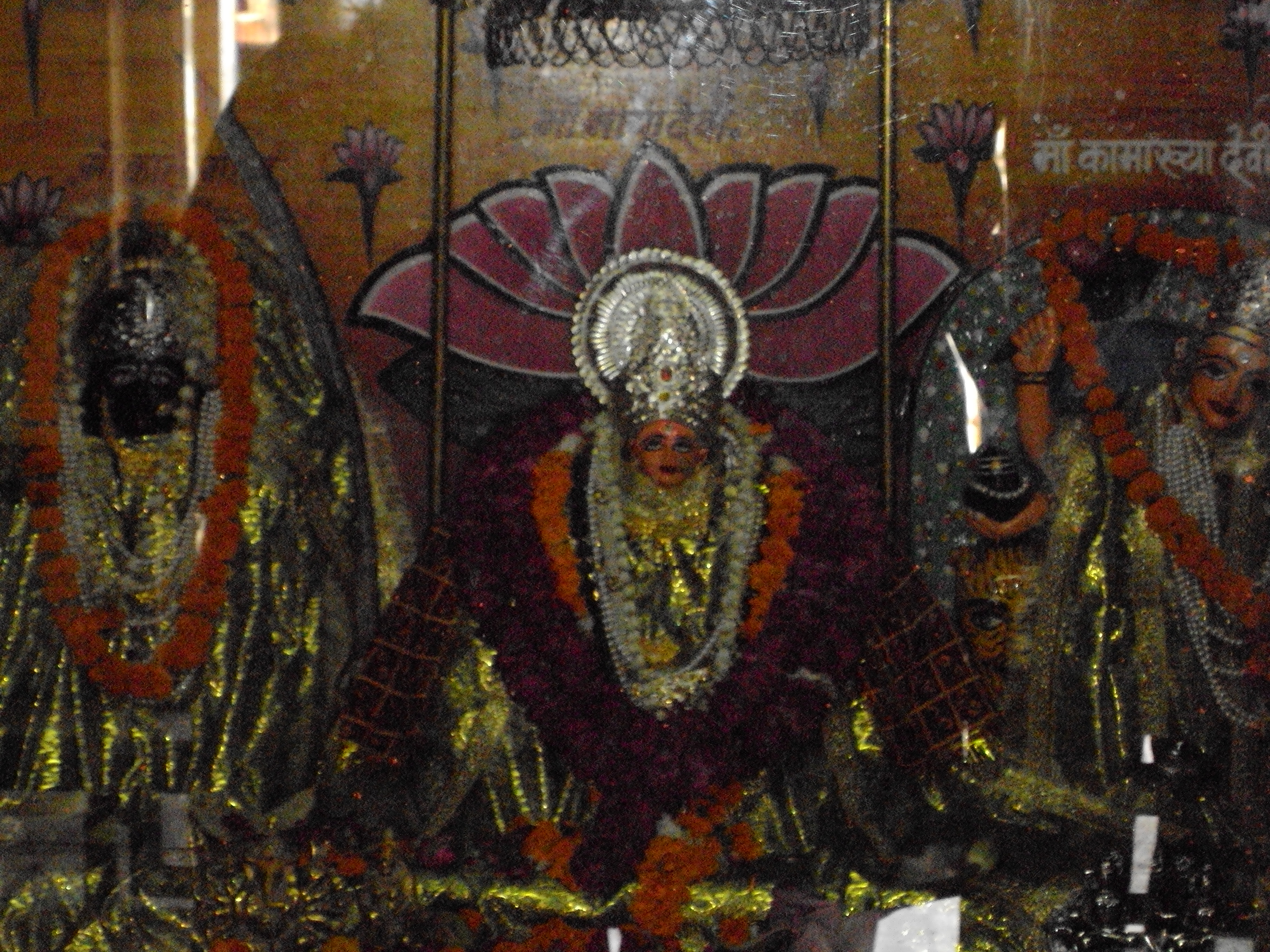 Inner shrine of the Maya Devi Temple in Haridwar. The inner shrine has the murtis of deities Maya Devi in the centre, Goddess Kali on the left, Maa Kamakhya on the right. There are also two other Goddesses who are also forms of Shakti, present in the inner shrine.